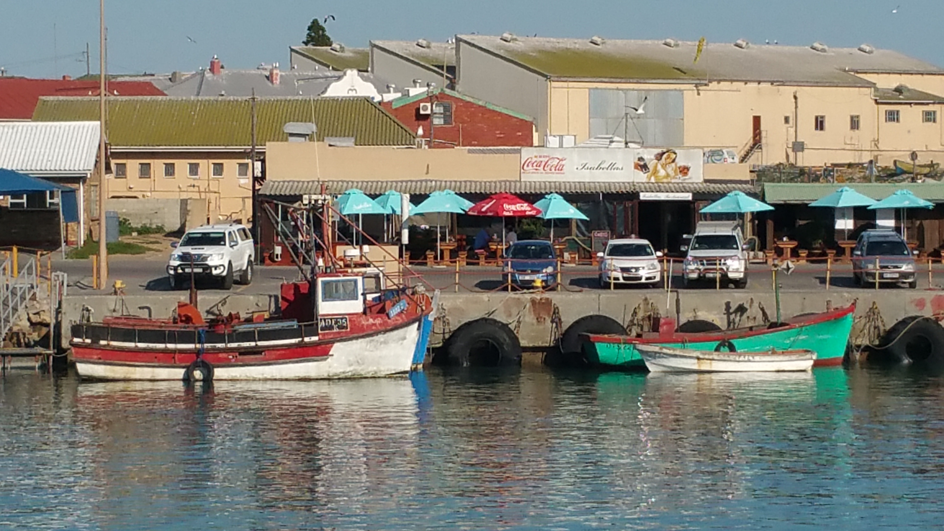 Isabellas Restaurant on the wharf I Lamberts Bay, South Africa